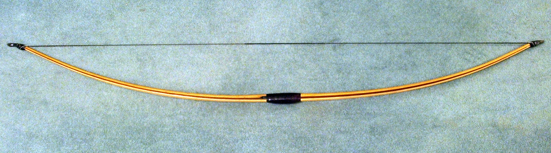 Lemonwood, purpleheart and hickory longbow (45 lbf at 28 inches). Photo taken by me, James Cram, and released into the public domain.